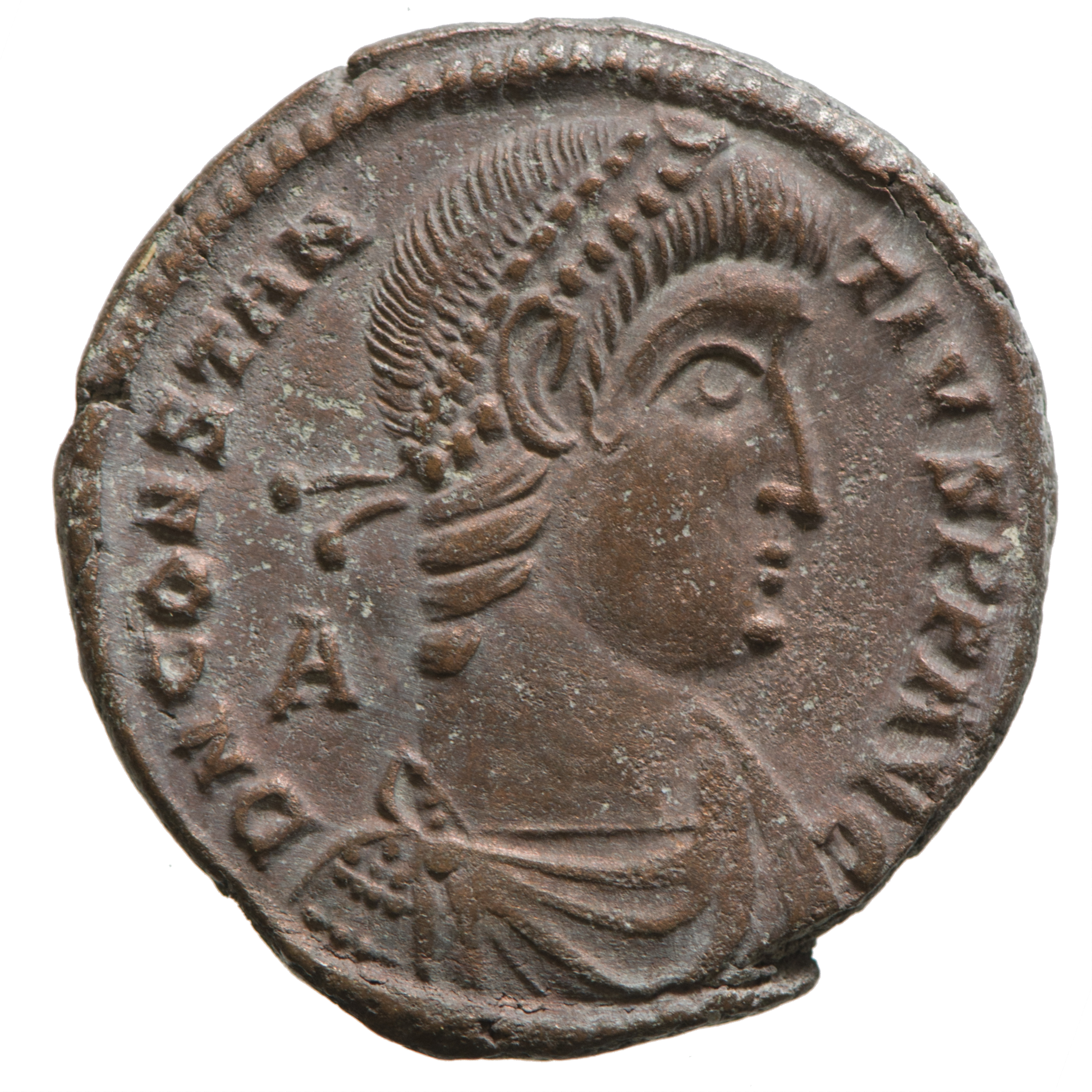 Obverse (front) of a nummus of Constantius II, showing Bust right draped, pearl diademed.